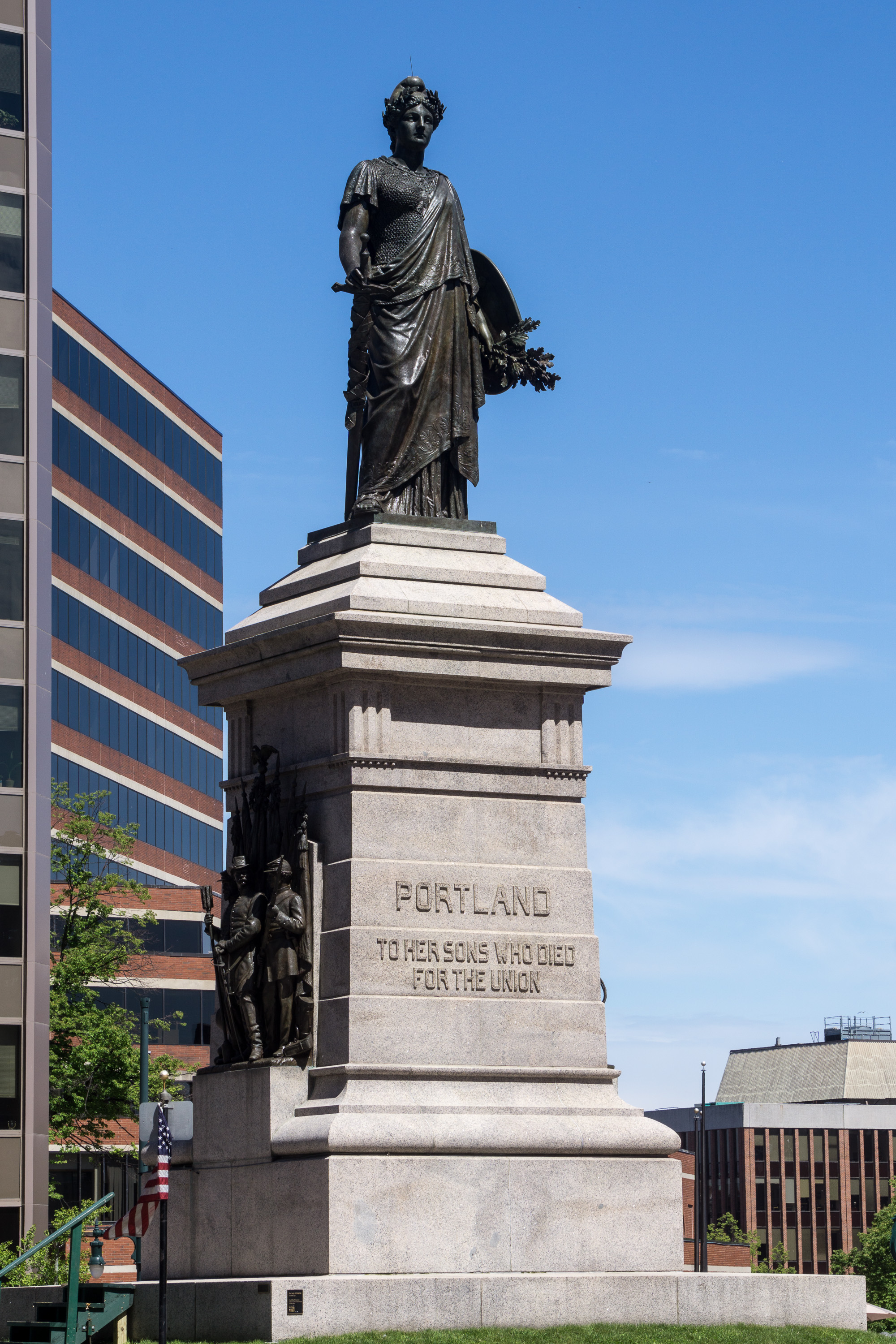 Our Lady of Victories statue, Monument Square, Portland, Maine